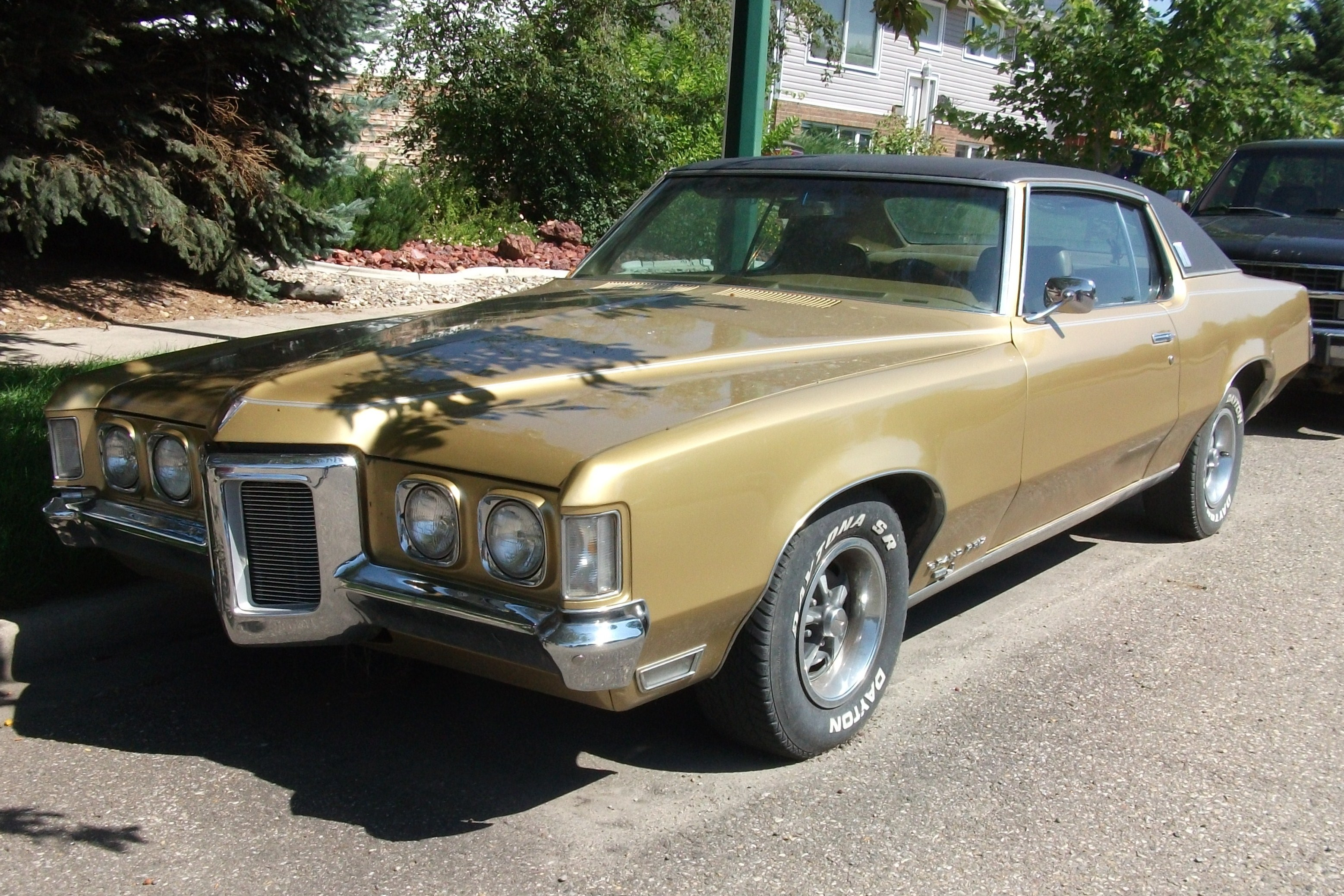 Big, brown Pontiac Grand Prix SJ (1969).